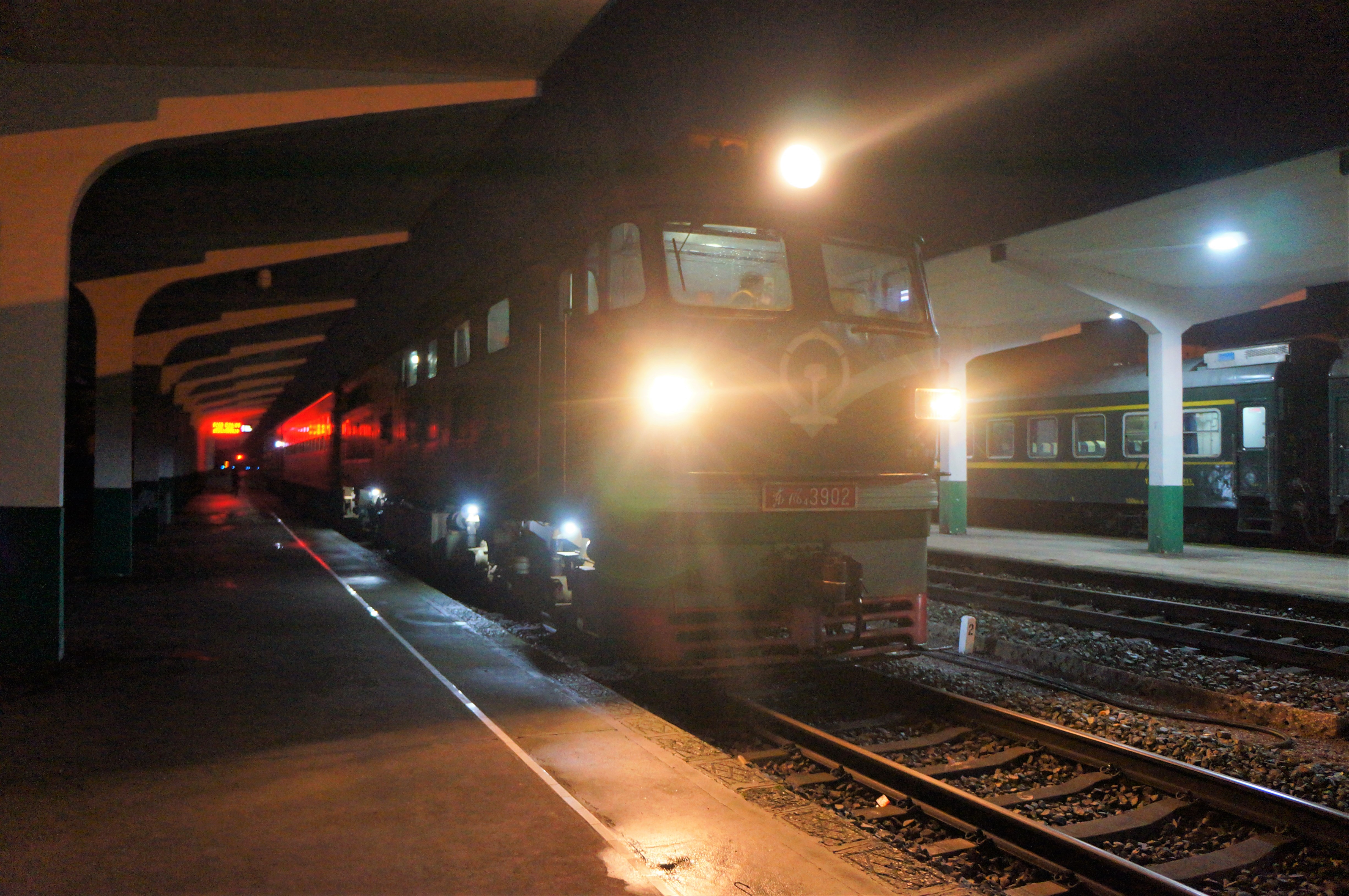 Boarding is permitted, but staying on the platform would be "kindly removed to the waiting room" by station staff.